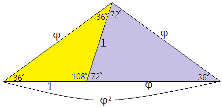 Golden triangle